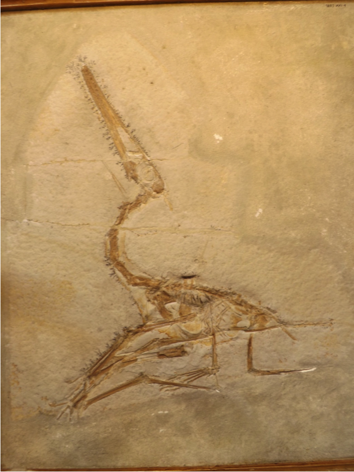 A fossil specimen of the pterosaur species Aerodactylus scolopaciceps (BSP 1883 XVI 1), which preserves the remains of a soft-tissue head crest.